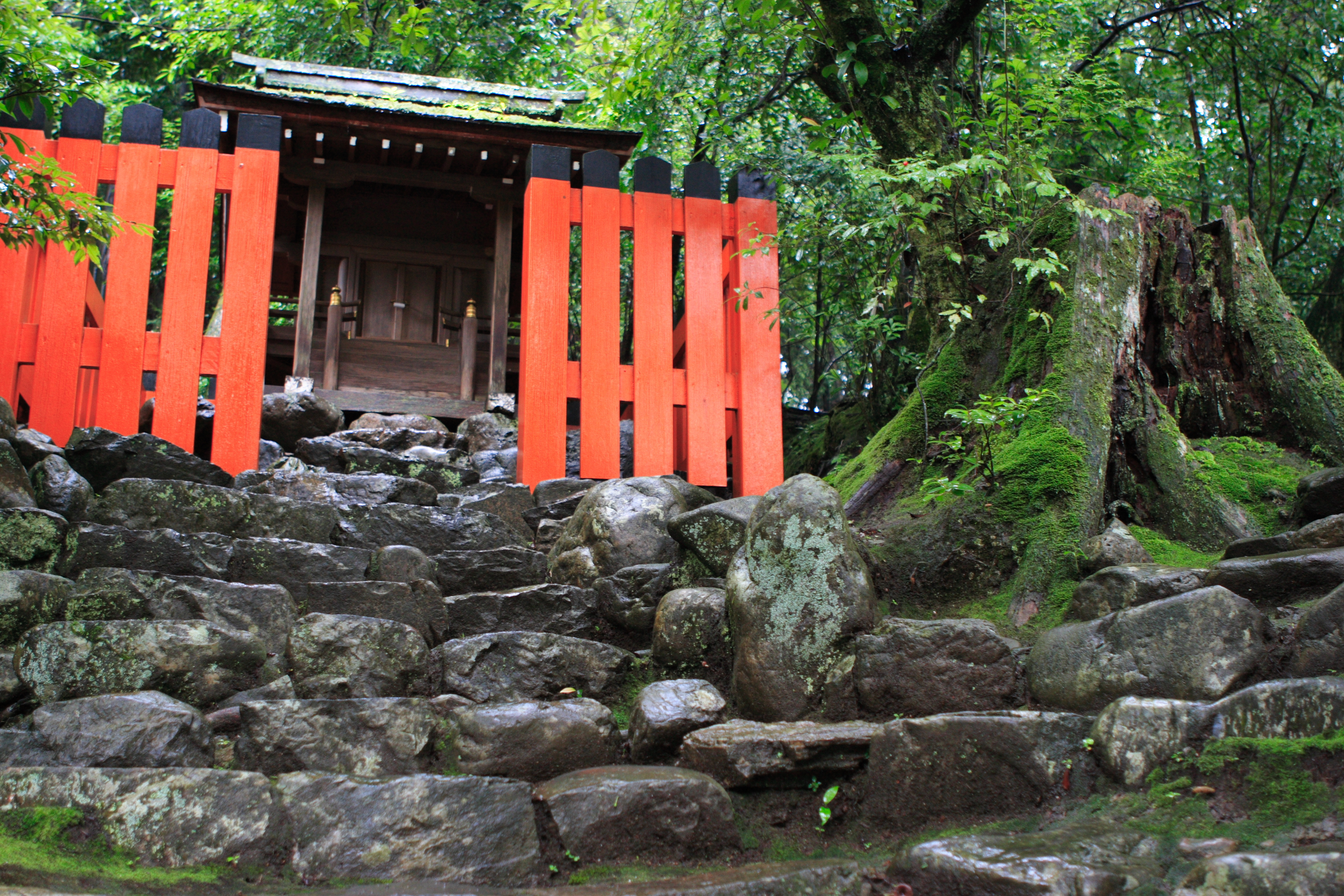 Stairs, Kamigamo Shrine, KyotoLocation: Kyoto